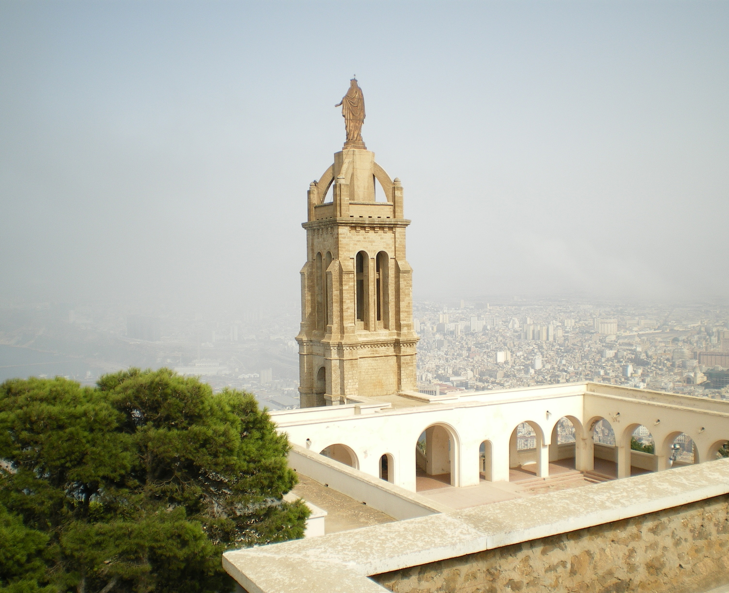 Santa Cruz church, from Oran. originally File:ChapelleSantaCruz.jpeg modified to remove a person.